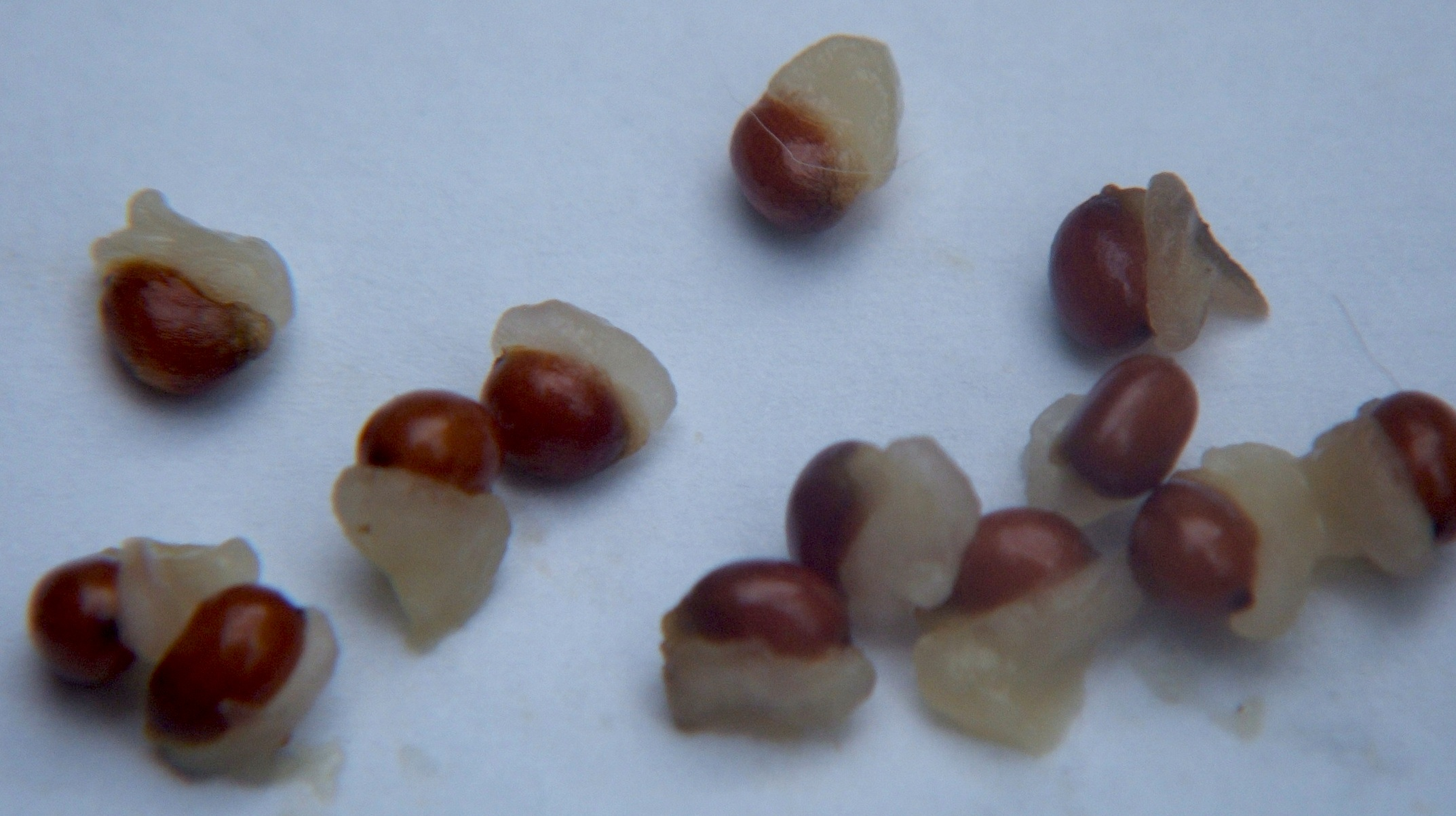 Seeds of the Prairie Trillium (trillium recurvatum) collected in Iowa in mid August. Closeup photo of the seeds shown in file:TrilliumRecurvatumOvaries.jpg.